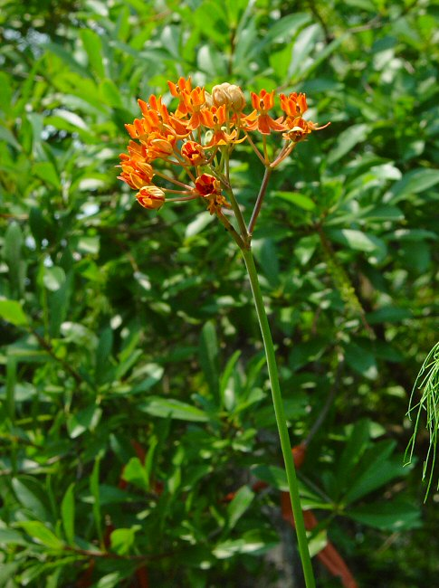 Asclepias Lanceolata, discovered in Cedar Hill New Haven, CT by Dr. Eli Ives of Yale